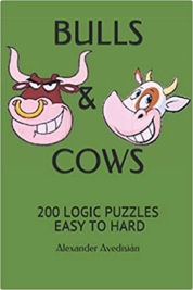 Bulls & Cows 200 Logic Puzzles Easy to Hard